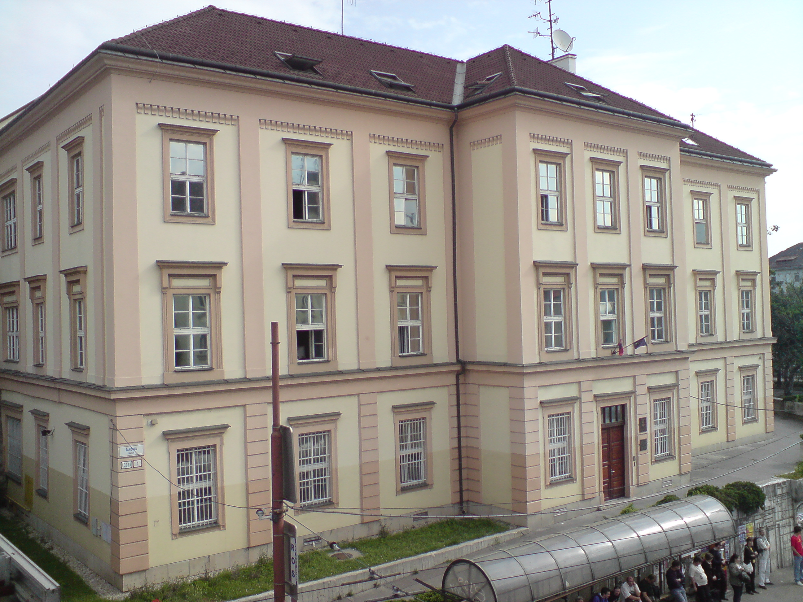 This medium shows the protected monument with the number 101-599/1 in the Slovak Republic.